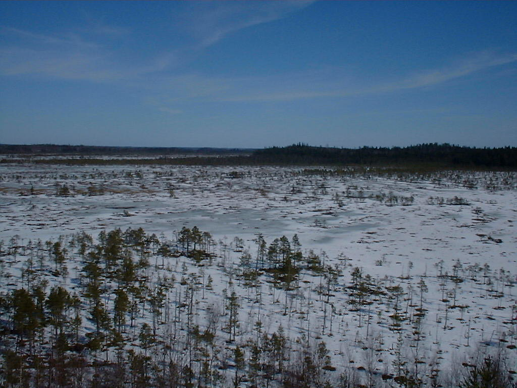 Torronsuo National Park in Tammela, Finland